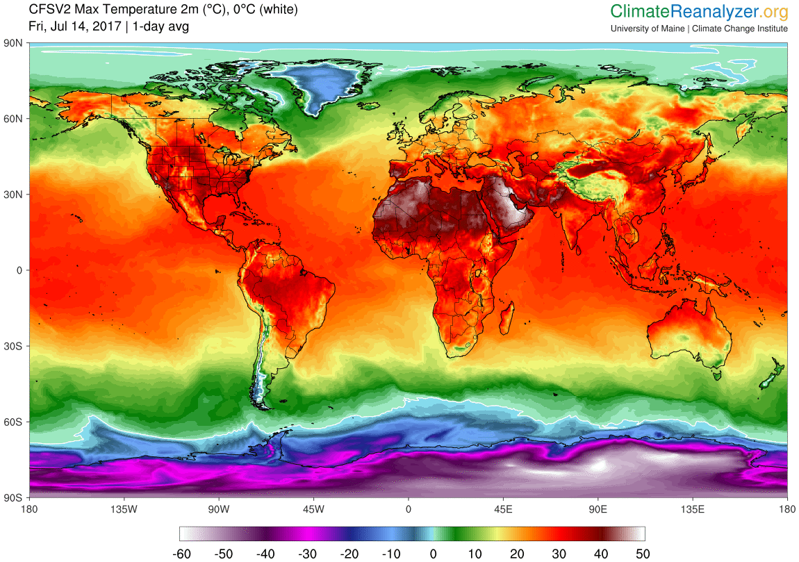 Max temperature global, 14 July 2017, Reanalysis. Showing new national record +47,3 °C at Montoro, Córdoba, Spain.